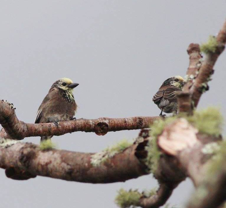 Anchieta's barbets photographed at the Cuanavale river, Angola